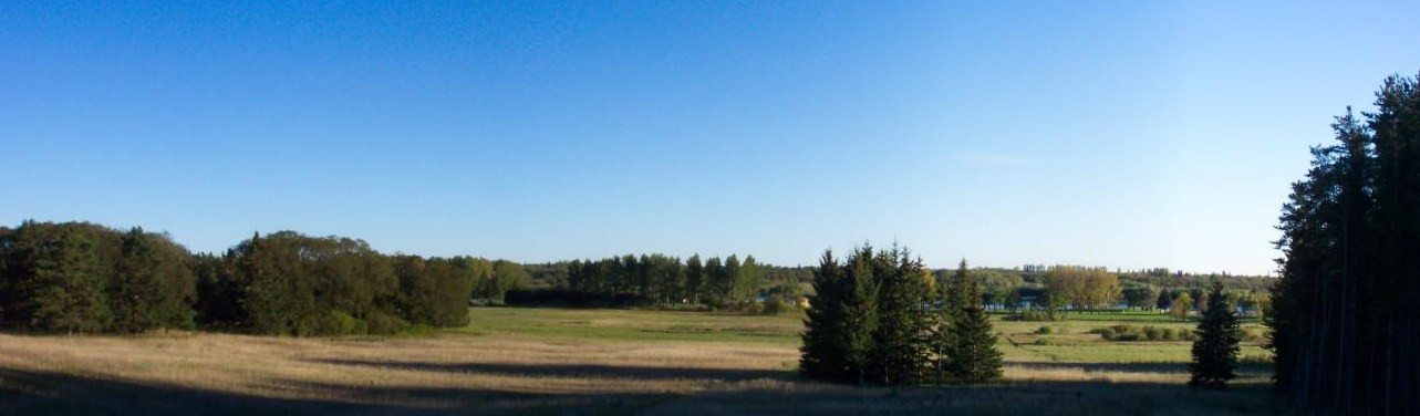 author:Van Whitehead source:own work date:Sept 22,2007 my stitch of 3 photos that I took on Sept 11,2007. Permission:open content for release into the public domain. Panorama photo of Birds Hill Provincial Park, Manitoba